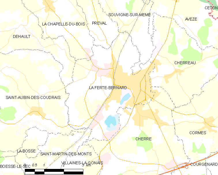 Map of French municipality